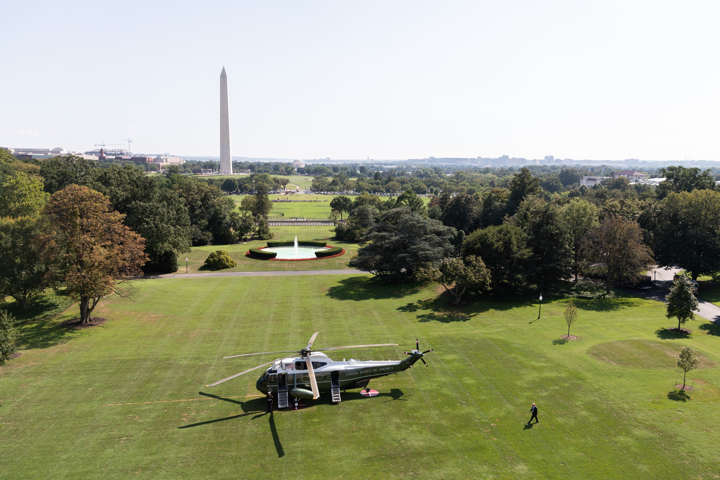 President Donald J. Trump departs from the South Lawn of the White House | September 6, 2018 (Official White House Photo by Shealah Craighead)